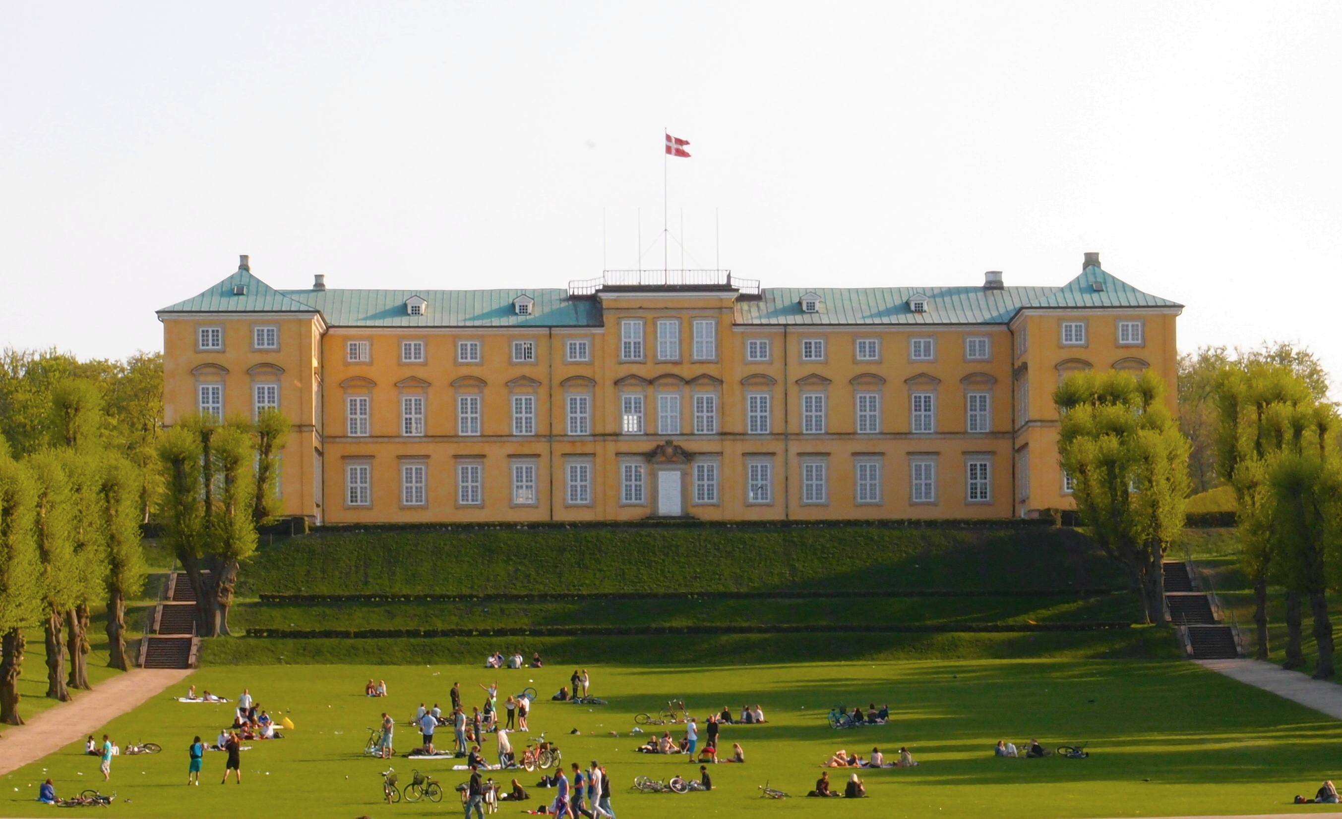 Frederiksberg Palace, viewed from the lawn between the main building and the pond in the adjacent park. Frederiksberg, Denmark